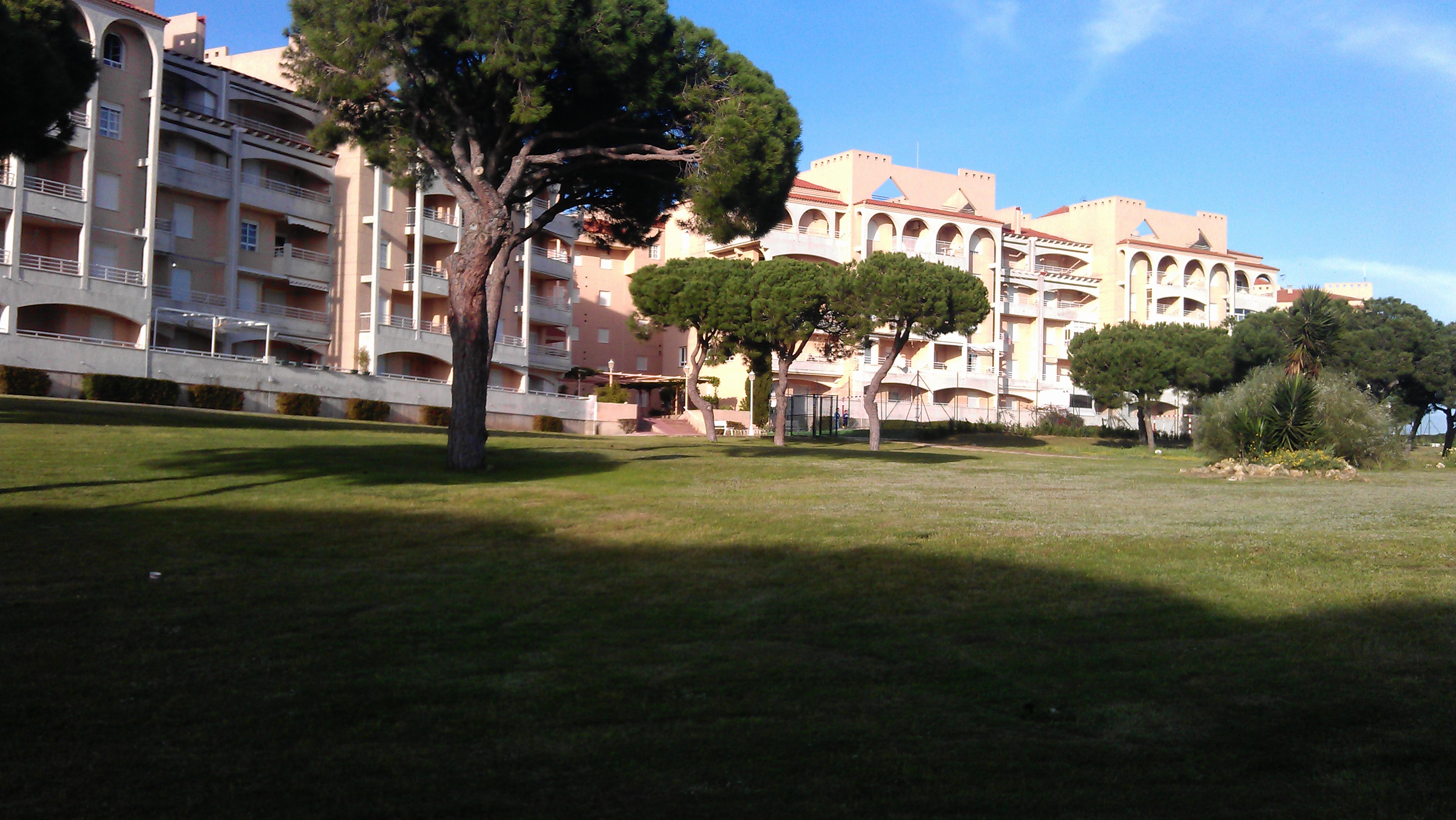 General view of the condominim located 80-100 mts from the beach.